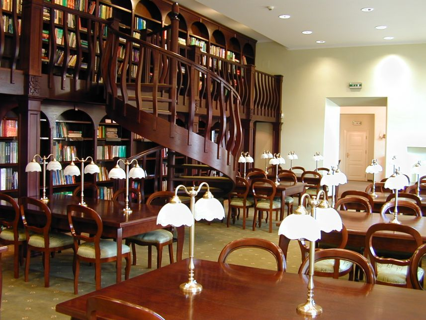 Library of Medical University of Bialystok